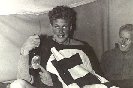 Libya. December 1941. Flight-Lieutenant W.S. Arthur, with the Nazi flag presented to No. 3 Squadron, RAAF, by Group-Captain Corss, R.A.F., in recognition of the squadron's total bag of more than 100 enemy planes. On 30 November, the squadron shot down 12 enemy for the loss of only two of its own machines, the pilots of which returned safely. Flight-Lieutenant W.S. Arthur scored four of the "kills".